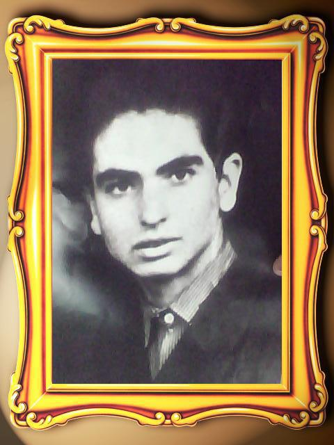 رفيق الشهادة